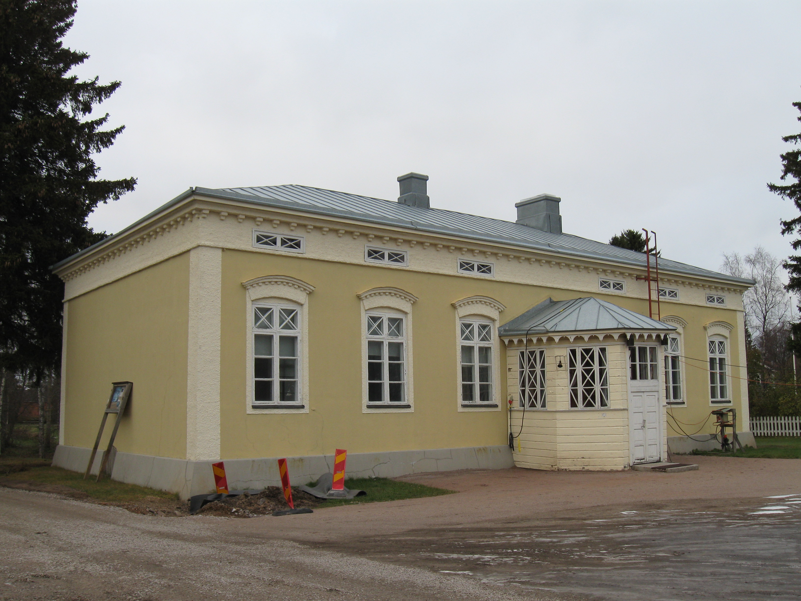 The museum of the painter Vilho Lampi in Liminka, Finland, a former elementary school building from the year 1868.